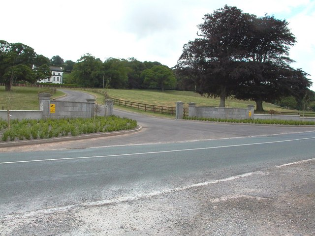 R610 road outside Passage West, Co Cork Farm entrance just outside Passage West